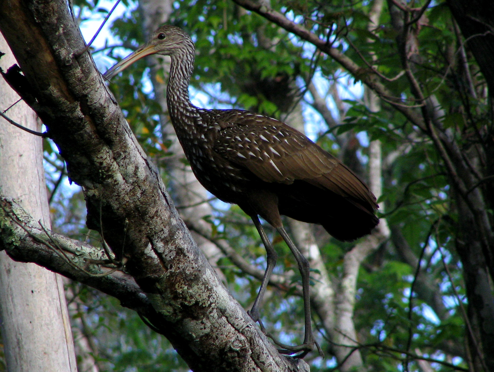 Limpkin - Wekiwa State Park. Taken by User:Mwanner, 16 January, 2007.